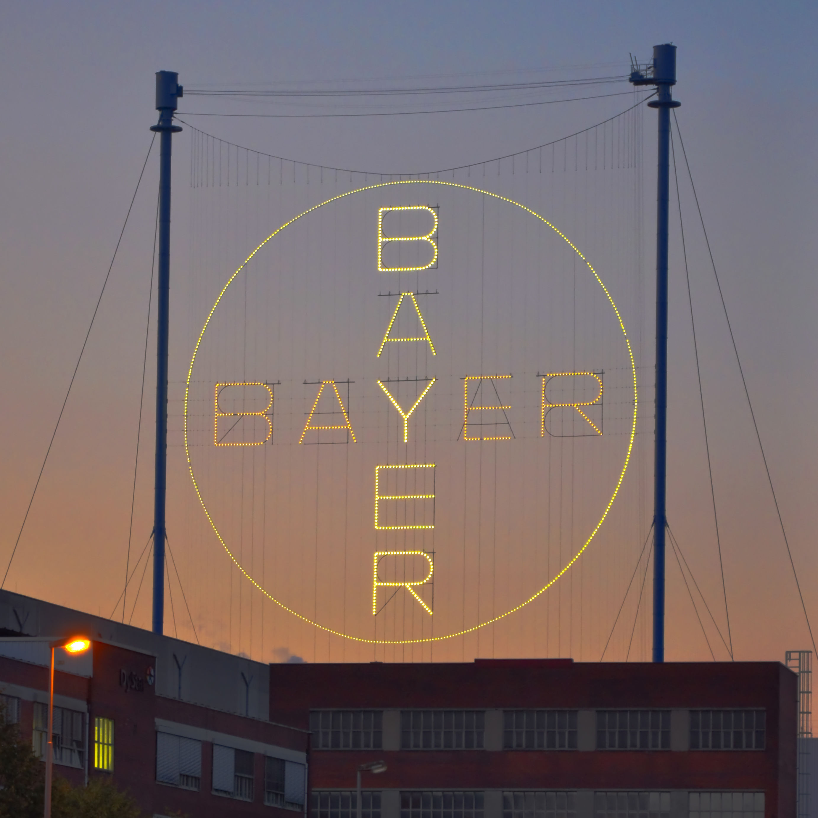 The Bayer Cross in Leverkusen, at a diameter of 51 meters the world's largest illuminated advertisement